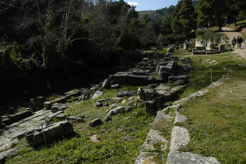 J. M. Harrington, personal digital image